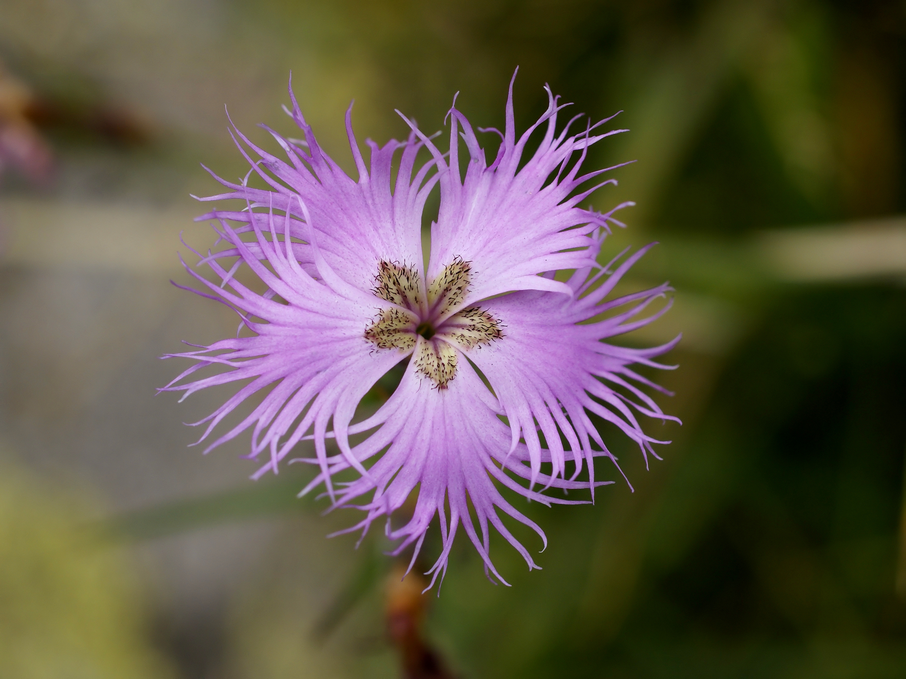 Fringed pink near El Serrat in Andorra.